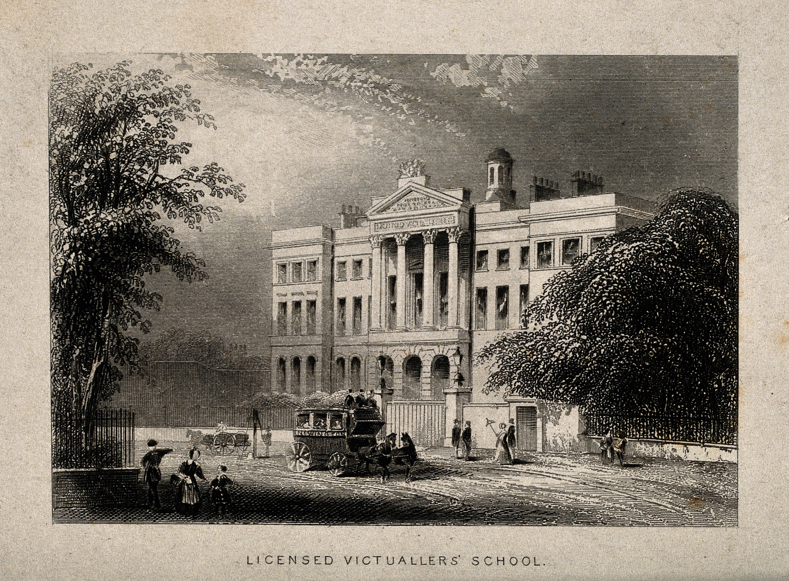 Licensed victuallers' school, Kennington, London. Engraving. Iconographic Collections Keywords: Licensed Victuallers' School (Kennington, London)